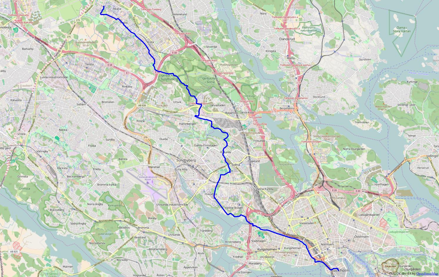 The Akallastråket hiking trail in Stockholm, Sweden.